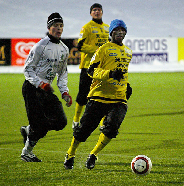 Sierraleonese Attacking Midfielder Medo aka Mohamed Kamara of KuPS. League cup game KuPS-FC Haka (ended 2-1, KuPS went on to win the League Cup). Medo has since been playing with HJK Helsinki (from 2007).